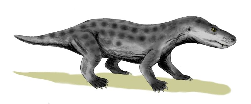 Ericiolacerta parva, a therocephalian from the Early Triassic of South Africa, pencil drawing, digital coloring